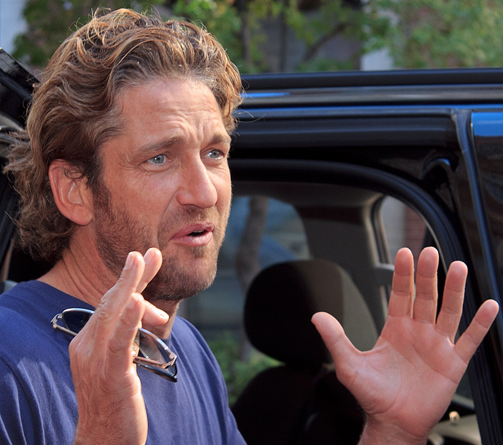 Gerard Butler at the 2011 Toronto International Film Festival.